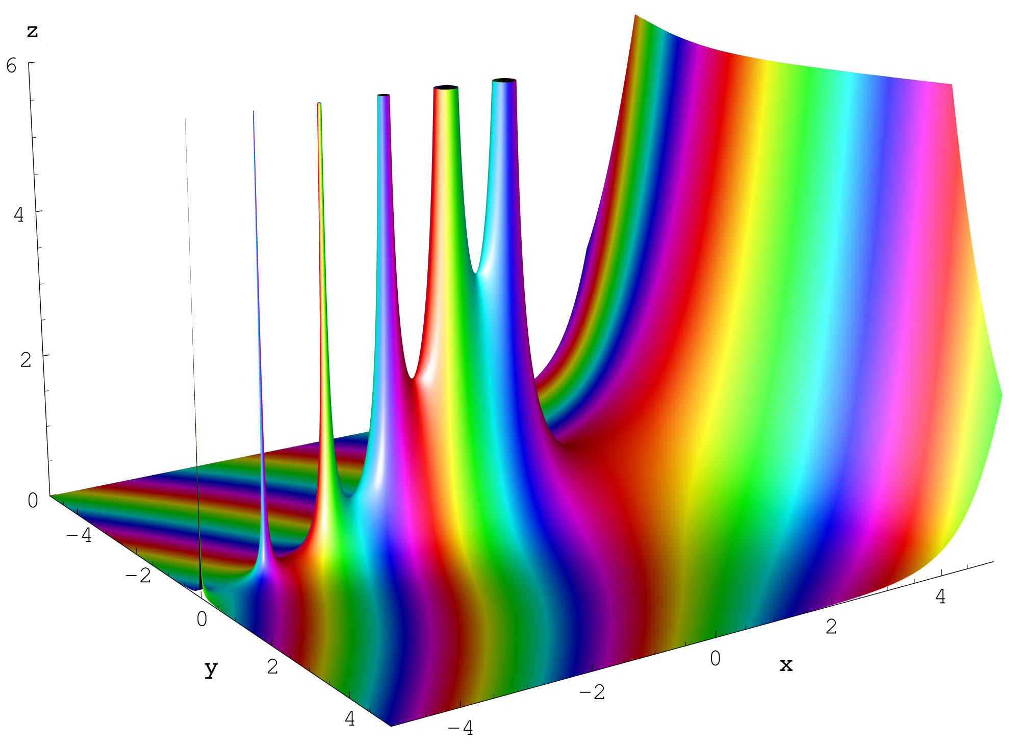 3-dimensional plot of the complex gamma function